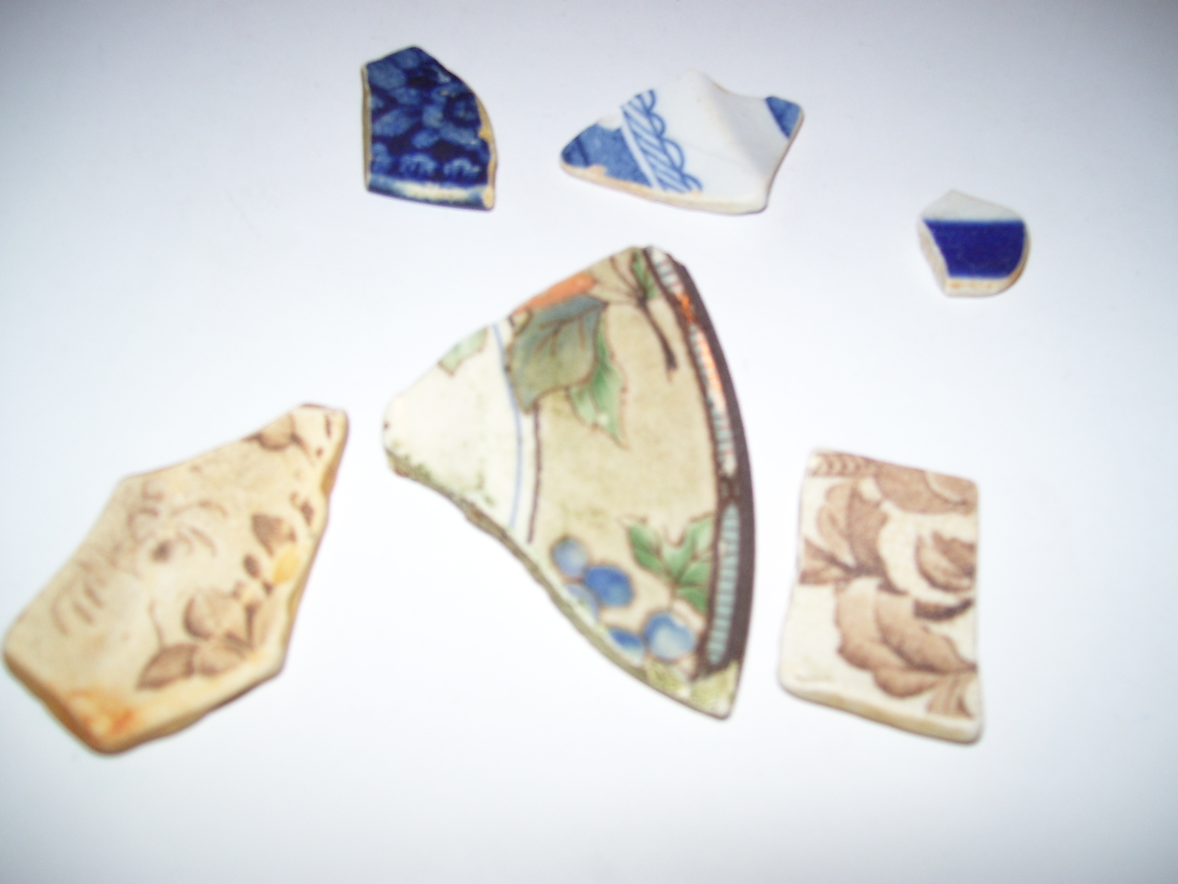 This is my 2009 photo of sea pottery.